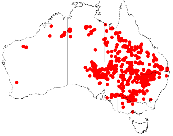 Acacia stenophylla Occurrence data from Australasia Virtual Herbarium downloaded from on 8 December 2018